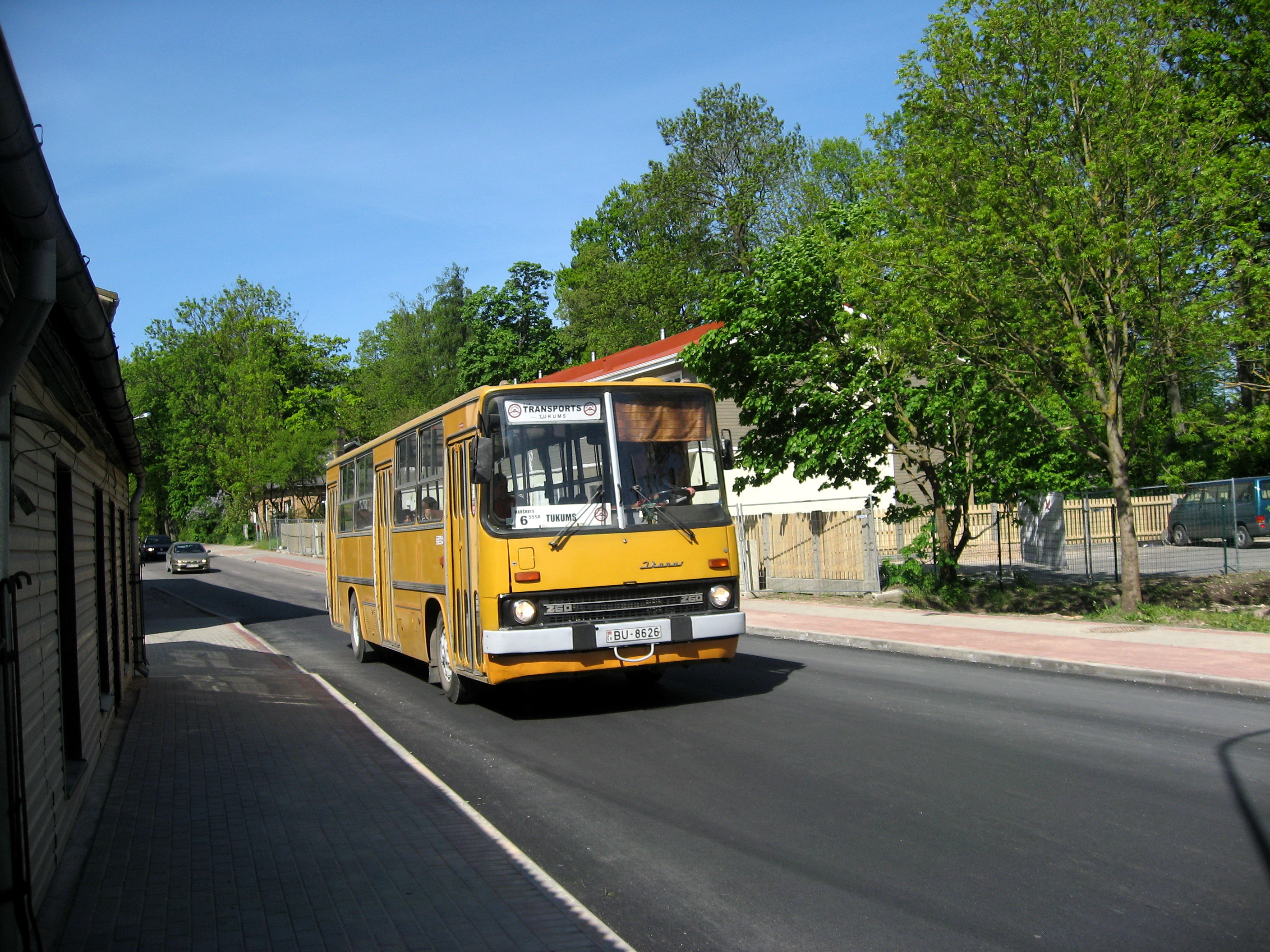 Ikarus 260 bus in Tukums, Latvia.